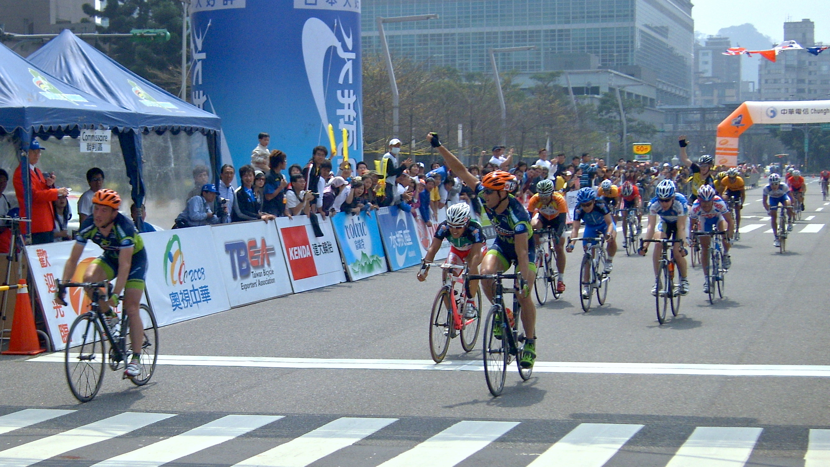 2008 Tour de Taiwan Stage 8: Decisive Limit.